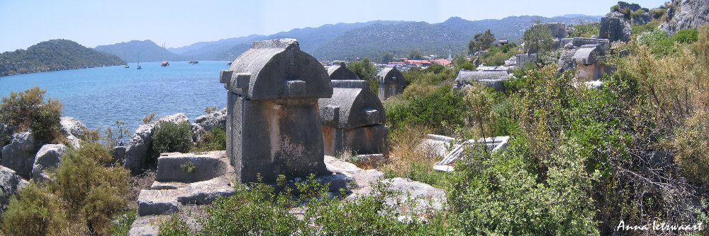 Lycian tombs at Simena near Üçagiz (Turkey).